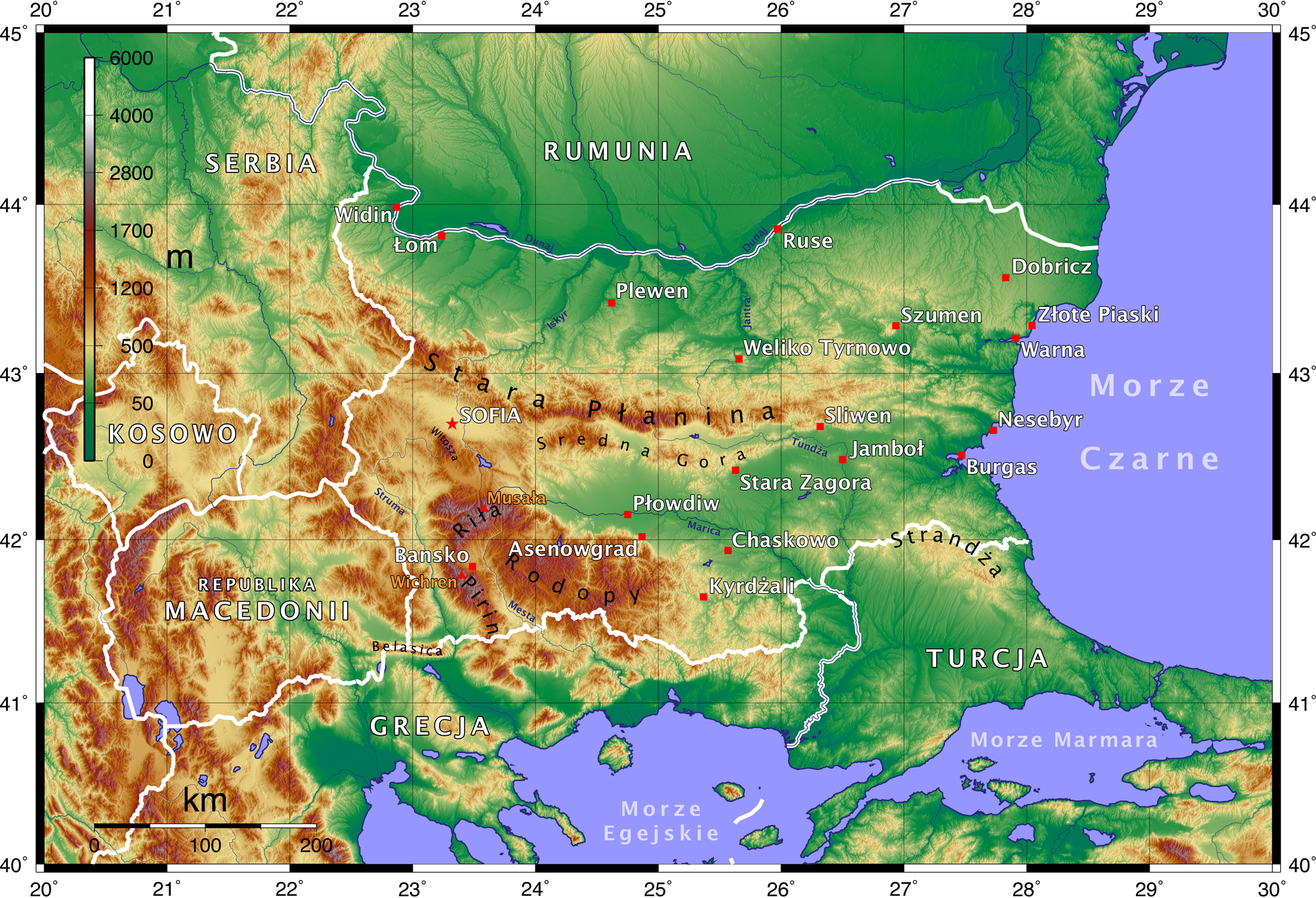 Polish language topographic map of Bulgaria